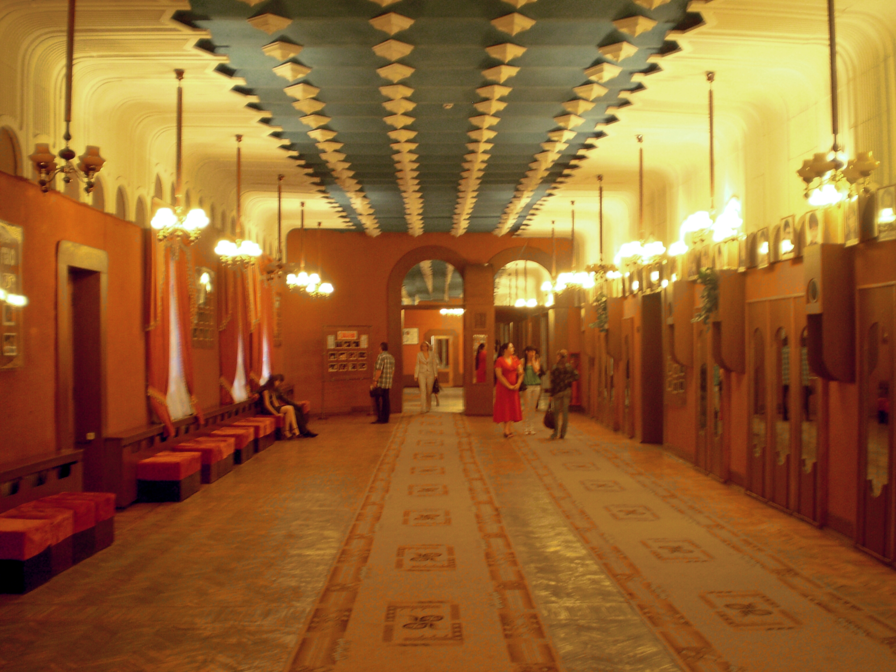 Pavlodar A.P. Chekhov drama theatre. Main hall Interior